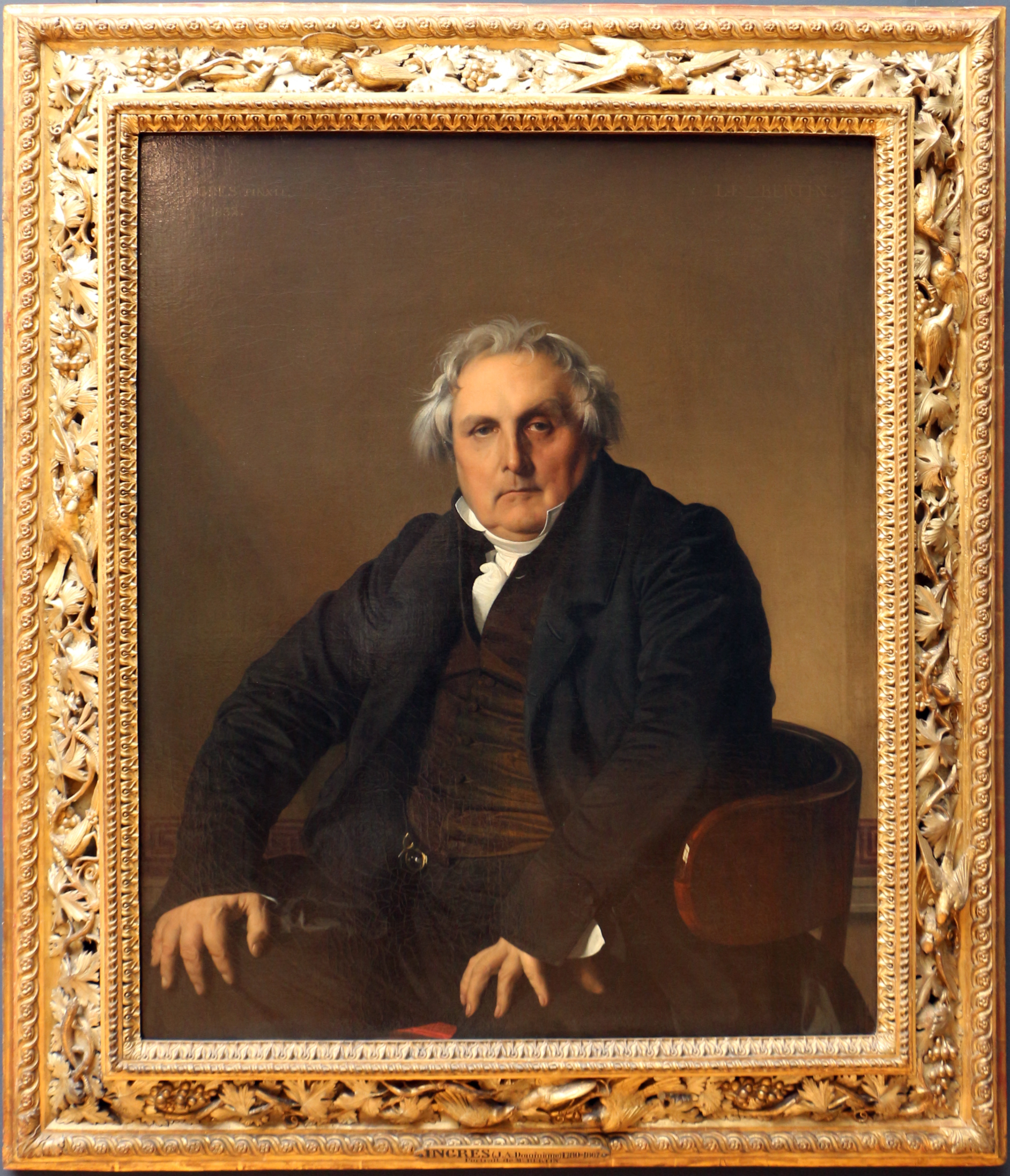 French paintings in the Louvre